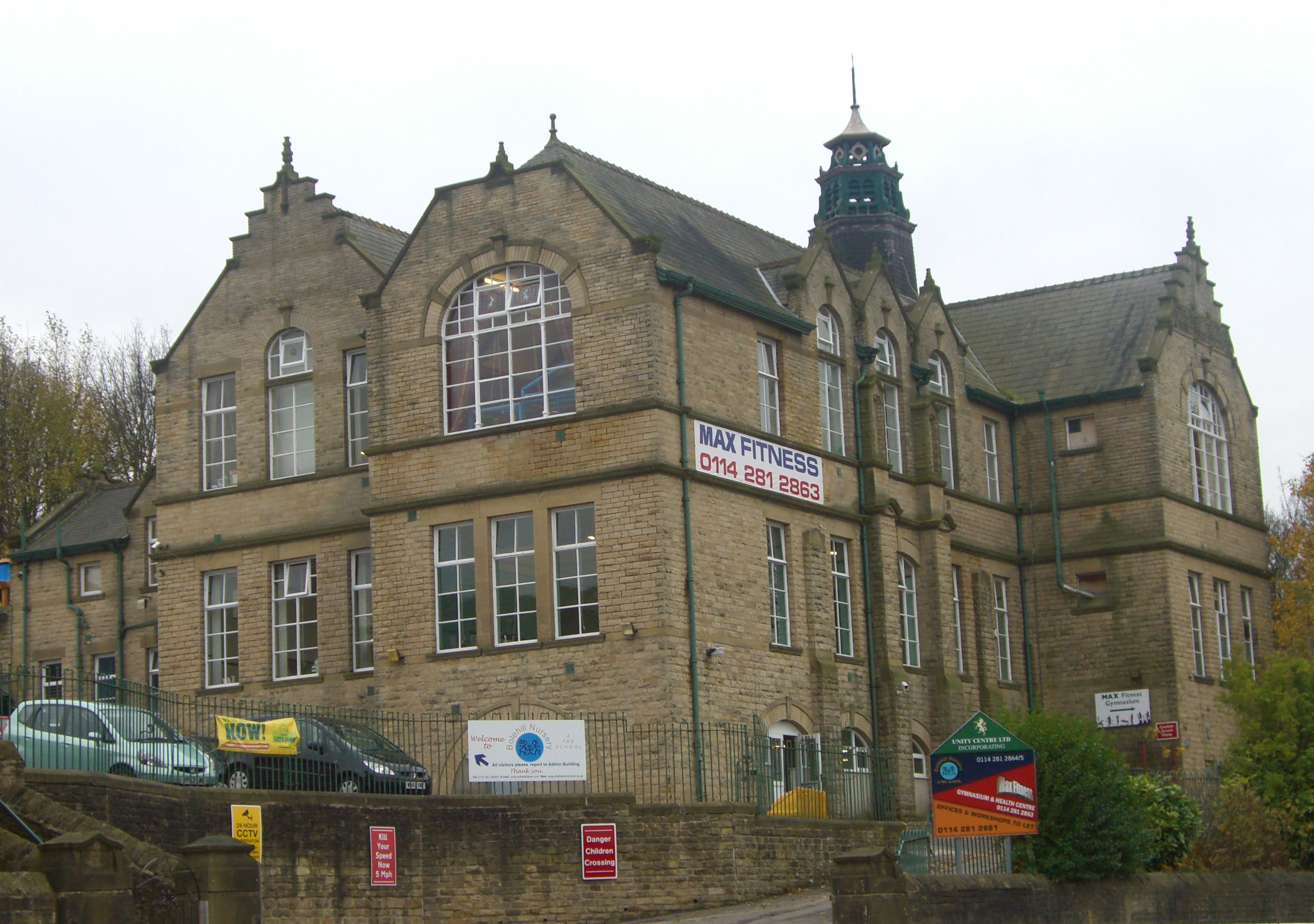 Bole Hill School, now in community use, in Sheffield, England. A grade II listed building.